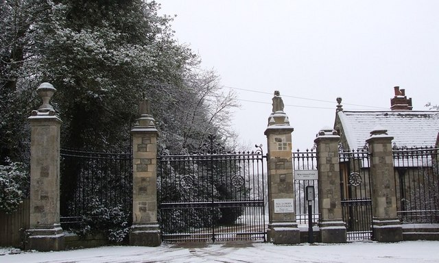 Wrotham Park, Bentley Heath, Hertfordshire